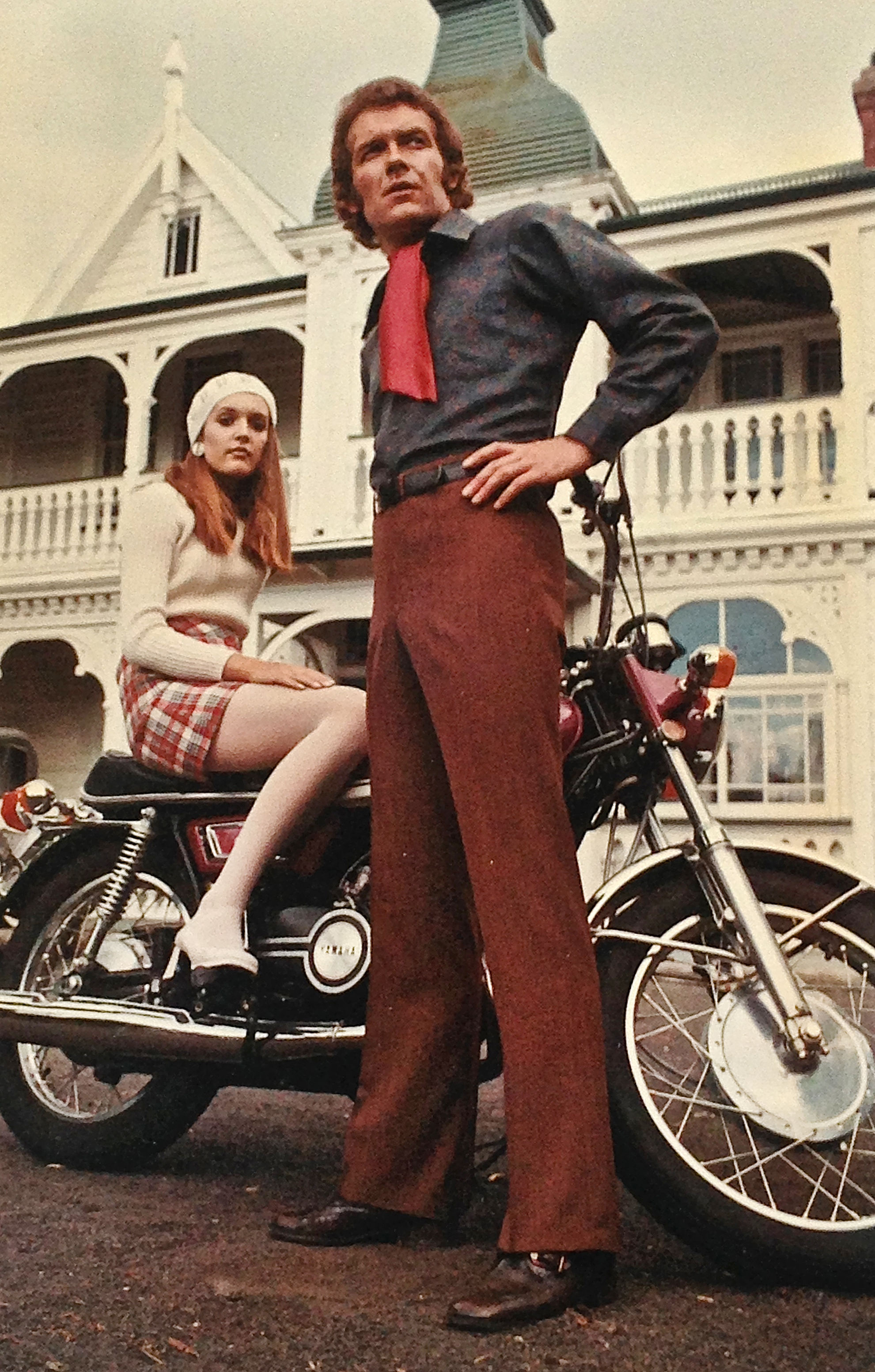 New Zealand model and writer Judith Baragwanath with her partner, the television journalist Rhys Jones, in the early 1970s. Photographed in Auckland by fashion photographer Max Thomson.